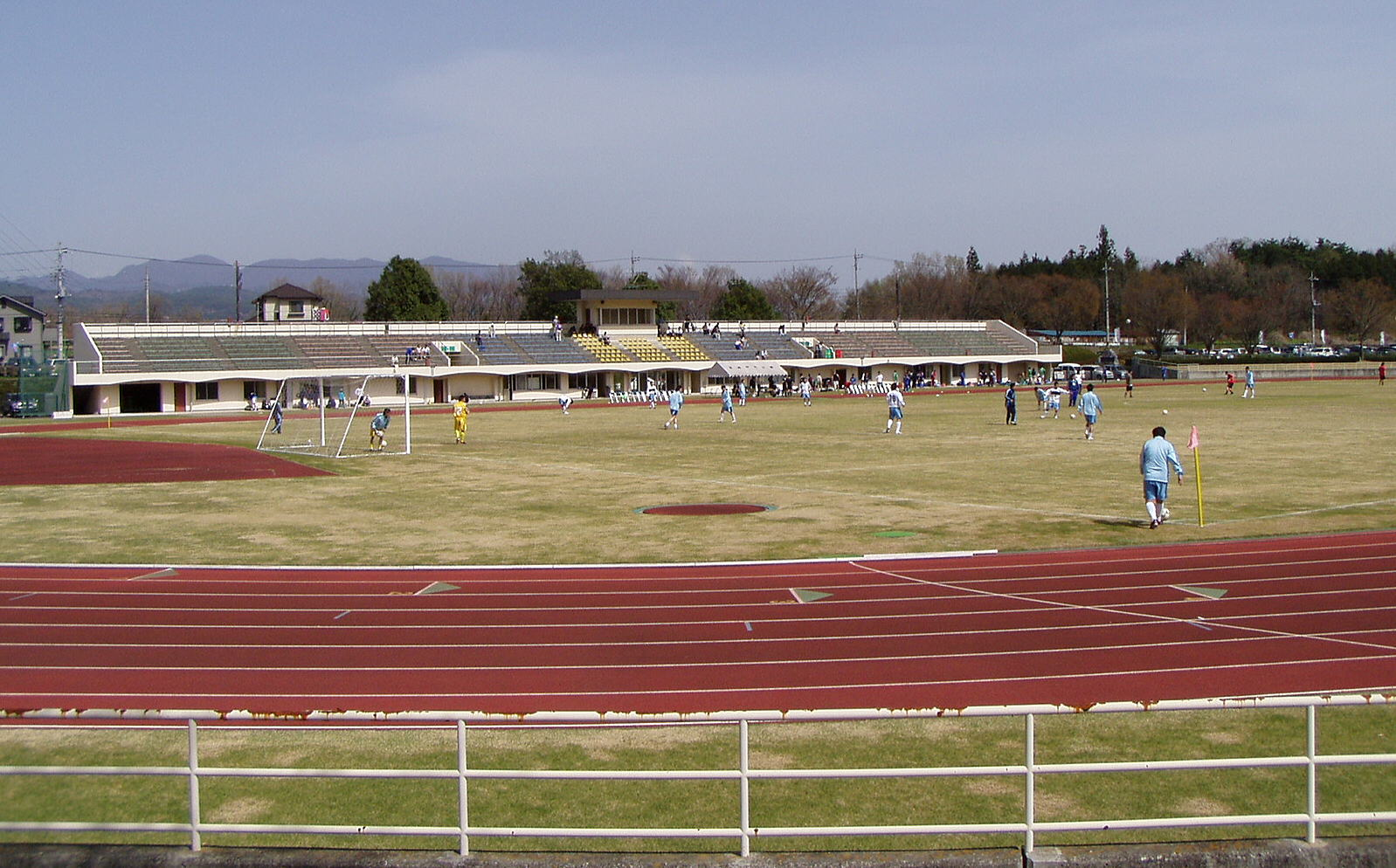 Nirasaki groundpark athletic studium.(Nirasaki-City Yamanashi-Pref Japan)